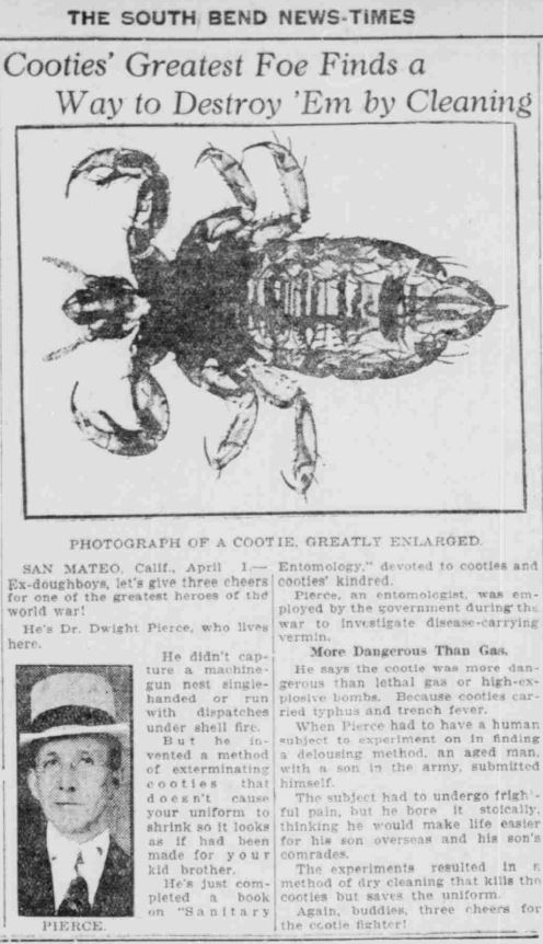 News photo of a World War I-era trench cootie.